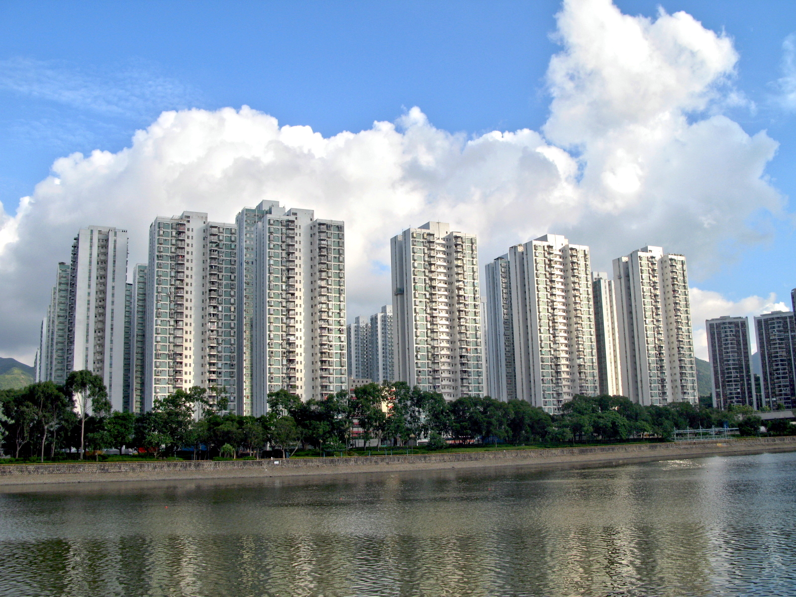 沙田第一城HK Cityone Shatin